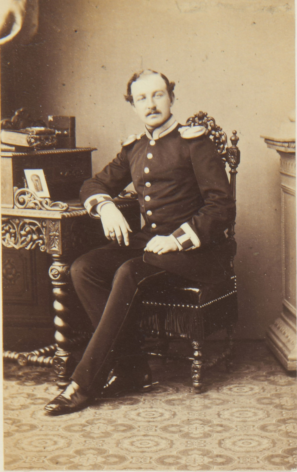 Carte-de-visite depicting a full-length portrait of Prince George Solms-Braunfels. He sits on a chair at a writing desk, facing the viewer. He wears a military uniform and rests his right elbow on the desk. A picture is placed on the desk.